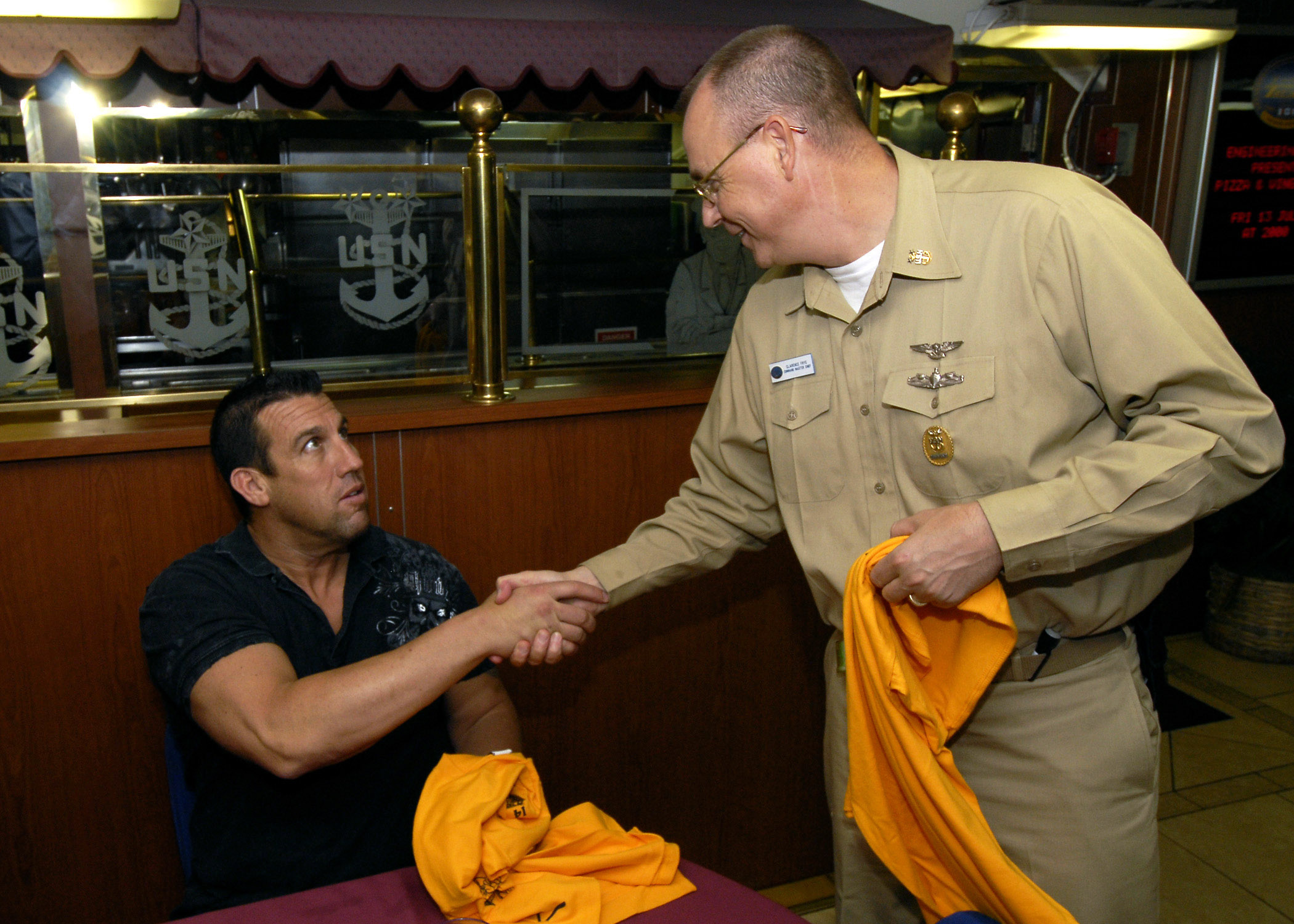 ATLANTIC OCEAN (July 13, 2007) - Command Master Chief Clarence Frye gives Ultimate Fighting Championship (UFC) referee "Big" John Mcarthy a flight deck jersey to thank him for visiting Nimitz-class aircraft carrier USS Harry S. Truman (CVN 75). Dr. Michael Gervais, President of Pinnacle Performance Center, Inc.; UFC fighters Rich Franklin and Mike Pyle; and UFC referee "Big" John McCarthy visited the Truman for two days to help increase morale for the Sailors. Truman is underway in the Atlantic Ocean participating in the Composite Training Unit Exercise (COMTUEX) in preparation for deployment to the Persian Gulf. U.S. Navy photo by Mass Communication Specialist Seaman Apprentice Matthew D. Williams (RELEASED)